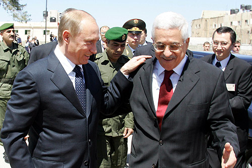 RAMALLAH. Meeting with the head of the Palestinian National Authority, Mahmoud Abbas.